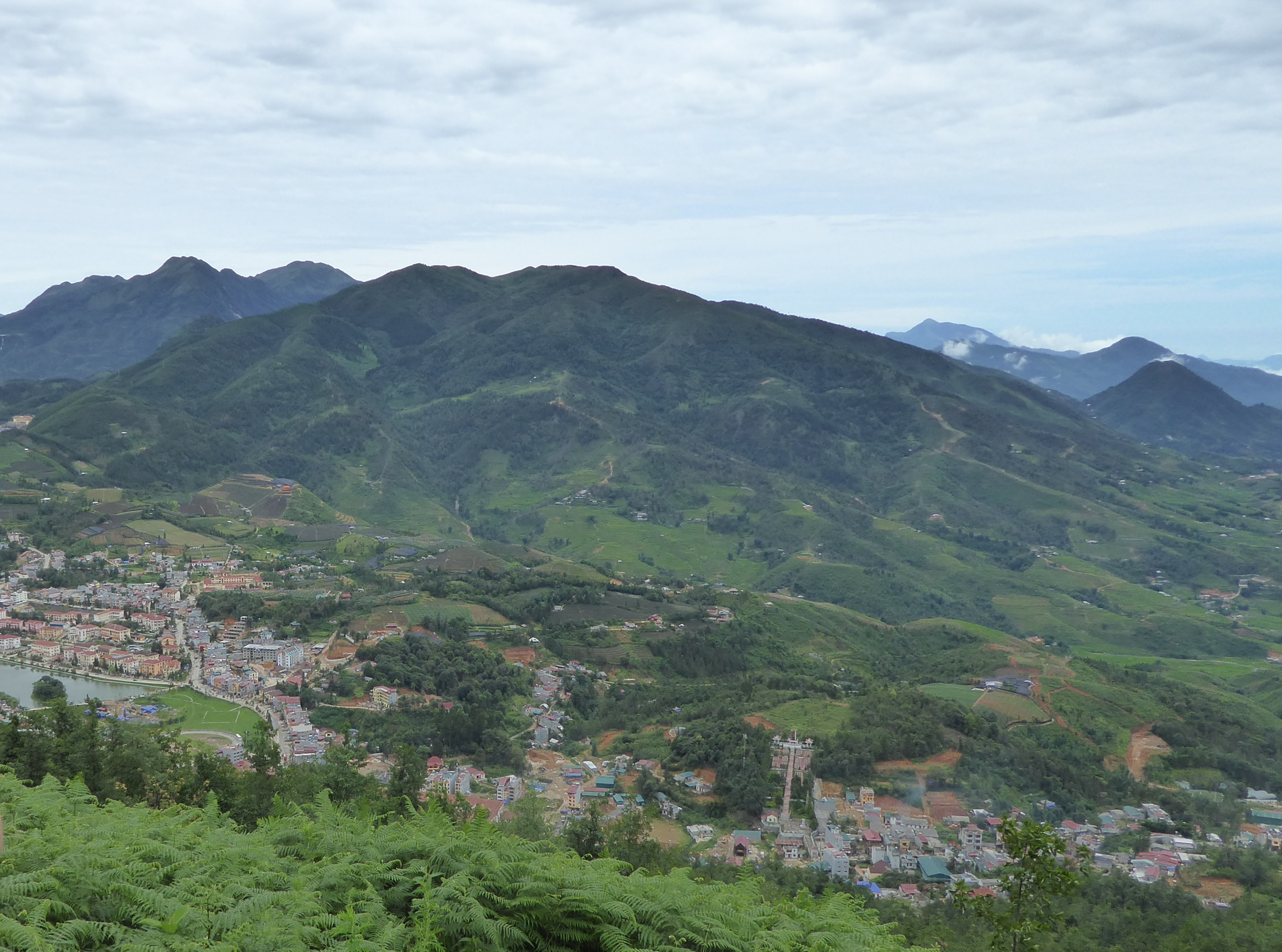 Sa Pa below the Aurora & J Mountain